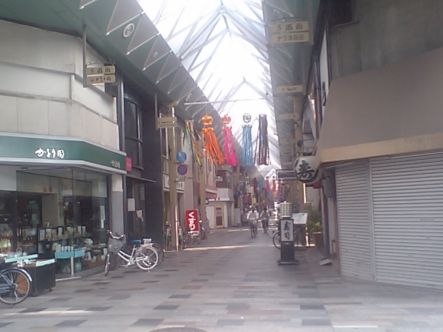 Lion-dōri shoutengai, takamatsu Chuo Shoutengai, Takamatsu,Kagawa.